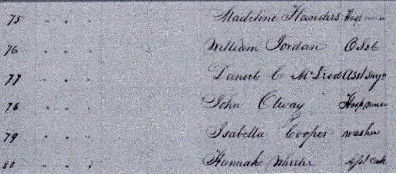 1832 muster showing early Gosport Naval Hospital enslaved employees. Madeline Flanders, John Otway, Isabella Cooper and Hannah Wheeler.